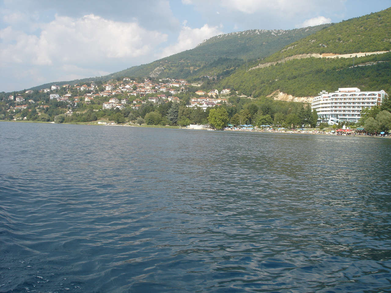 Tourist settlement Dolno Konjsko with hotel "Metropol" near Ohrid, Macedonia